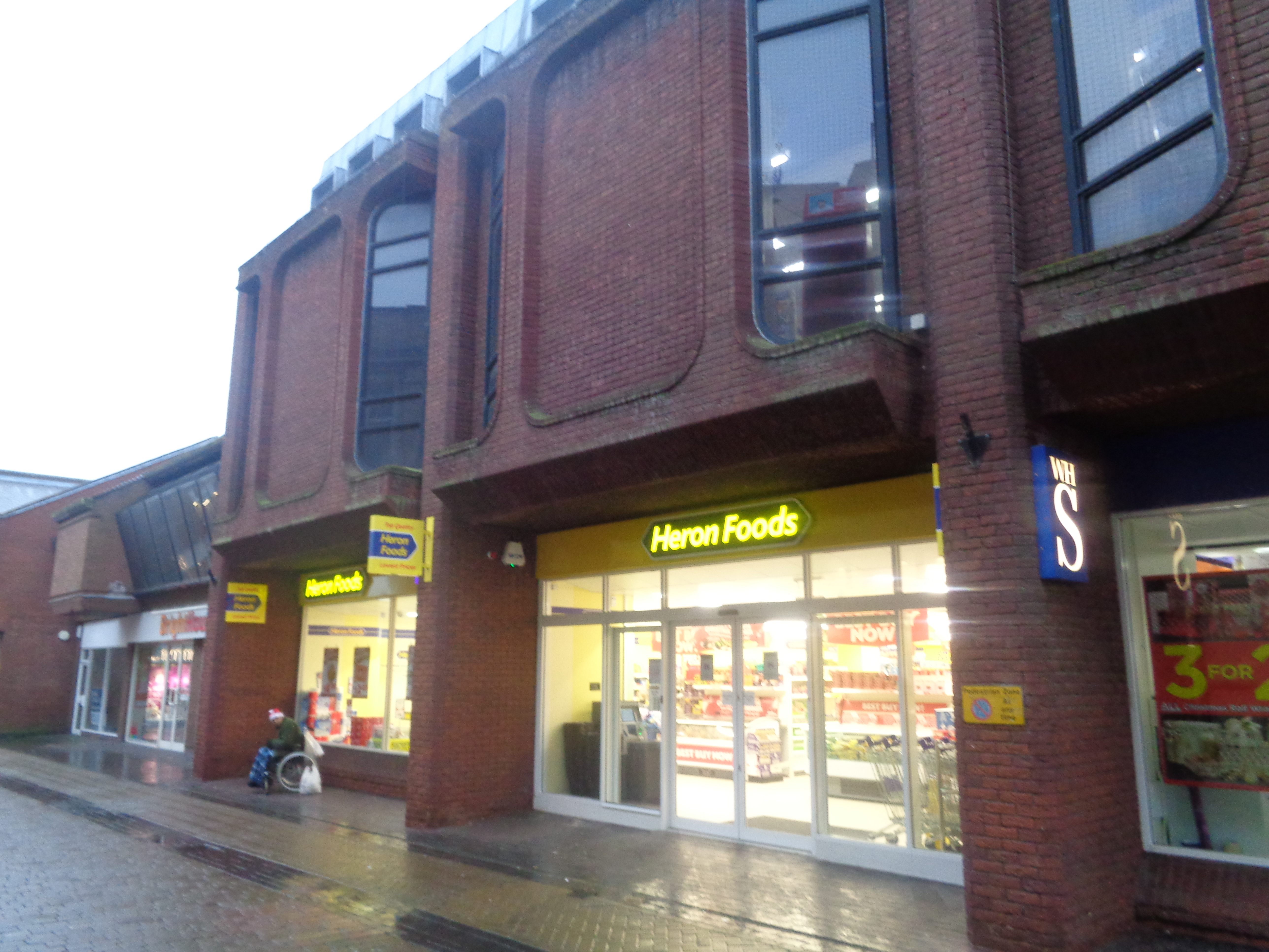 Heron Foods, Cornhill, Lincoln, Lincolnshire, England. Taken on the afternoon of Sunday the 13th of December 2015.